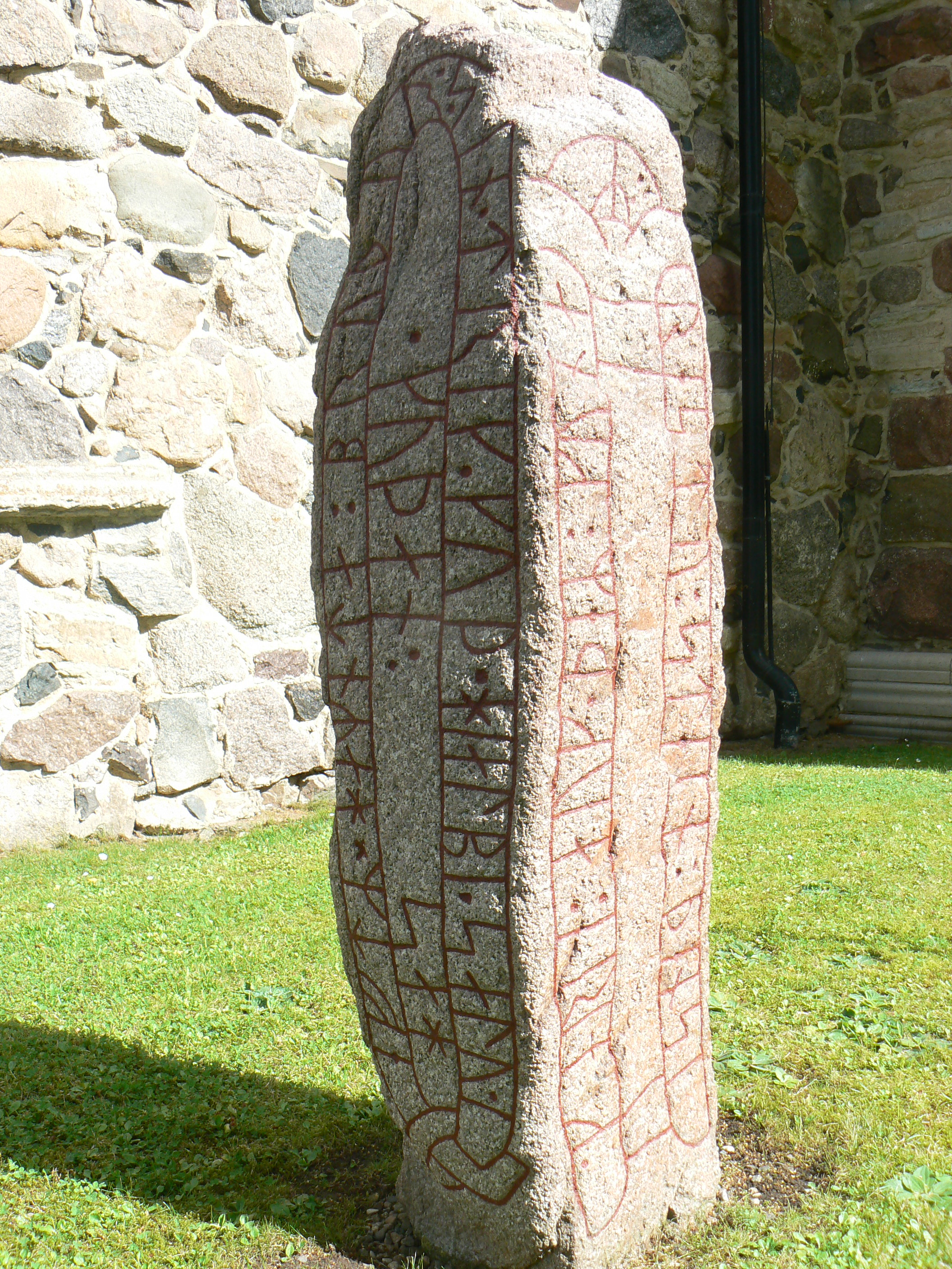 "Runic inscriptions of Östergötland 201" ("Öster Götland runinskriptioner 201"), runestone at Veta church, Mantorp. Carved on two sides.